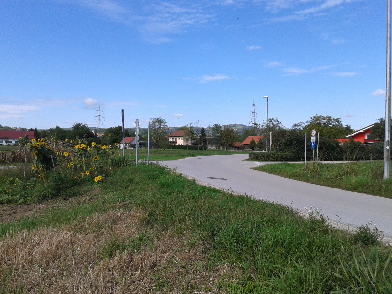 Žadovinek, a village in the Municipality of Krško (southeastern Slovenia).